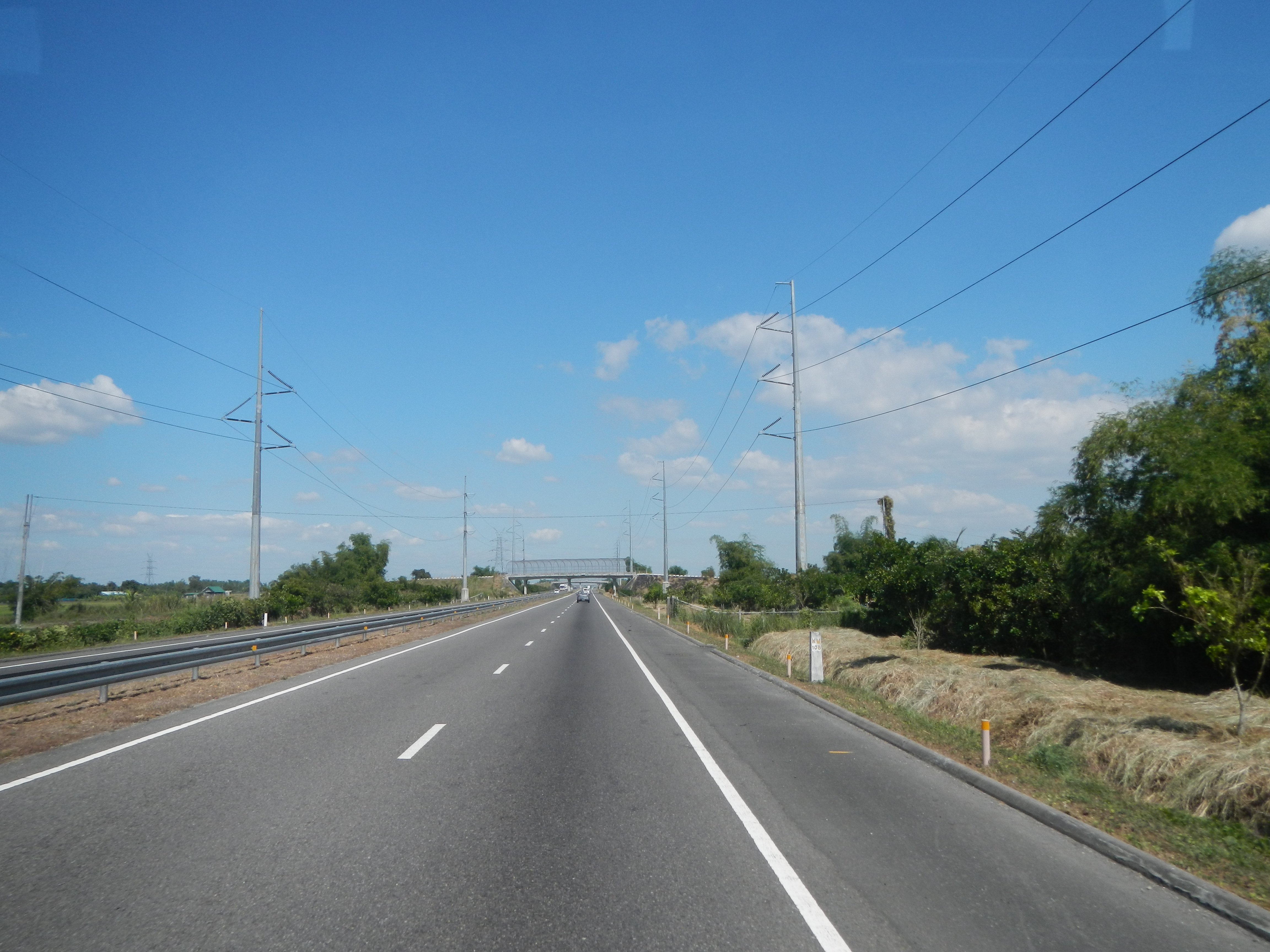 2015 version of the latest renovations of Subic–Clark–Tarlac Expressway Dau, Mabalacat - Concepcion, Tarlac section (from Mabalacat Interchange formerly Clark Logistics Interchange, NLEX Exit to Clark North Interchange to 'Dolores Exit' to Concepcion Exit to Hacienda Luisita Exit at Barangay San Miguel, Tarlac City, exit leads to the Hacienda Luisita Industrial Park).